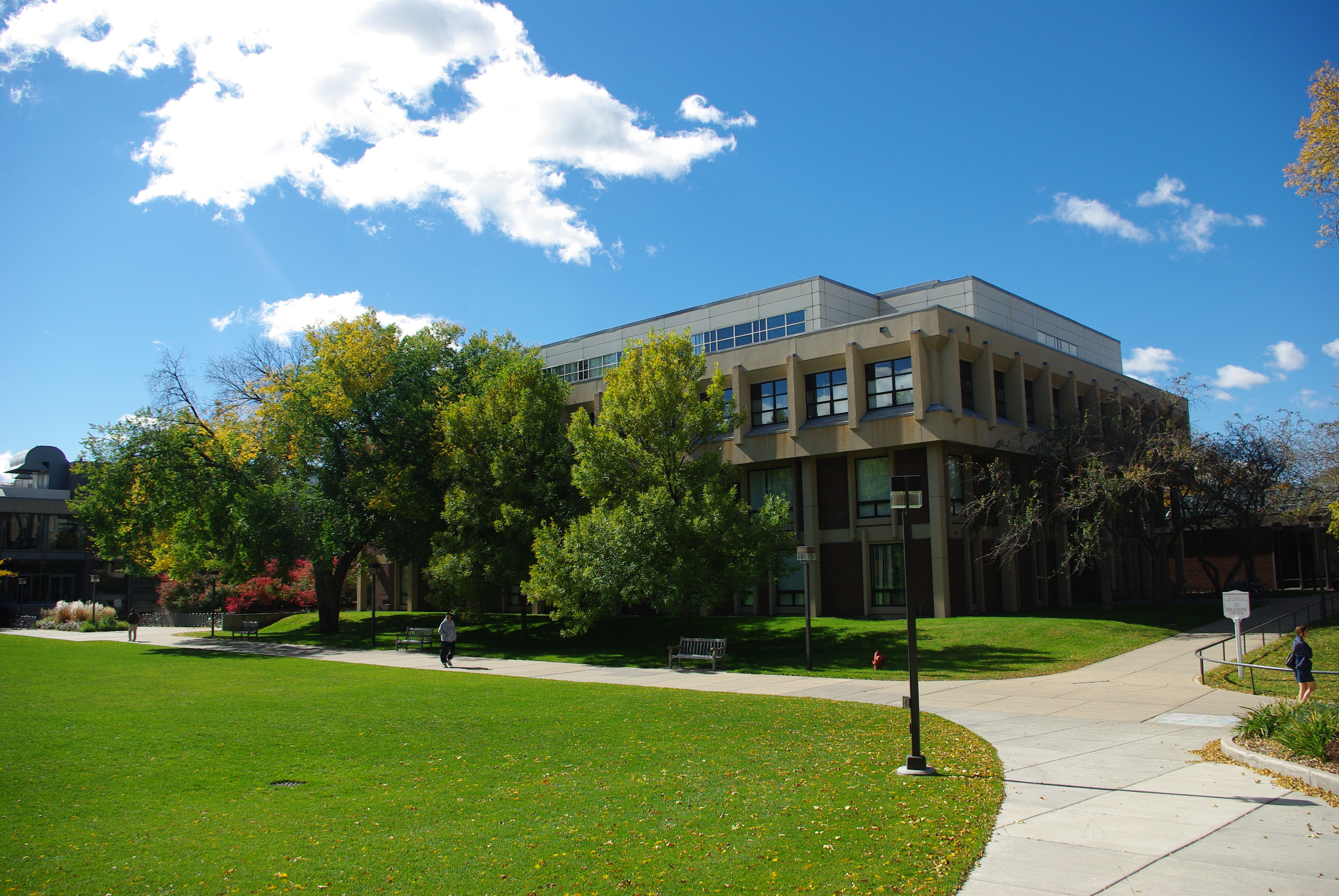 Neill Hall at Macalester College